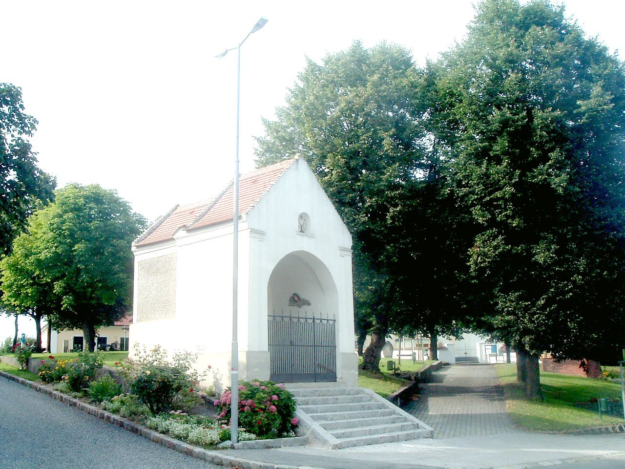 Drassmarkt (Vámosderecske)